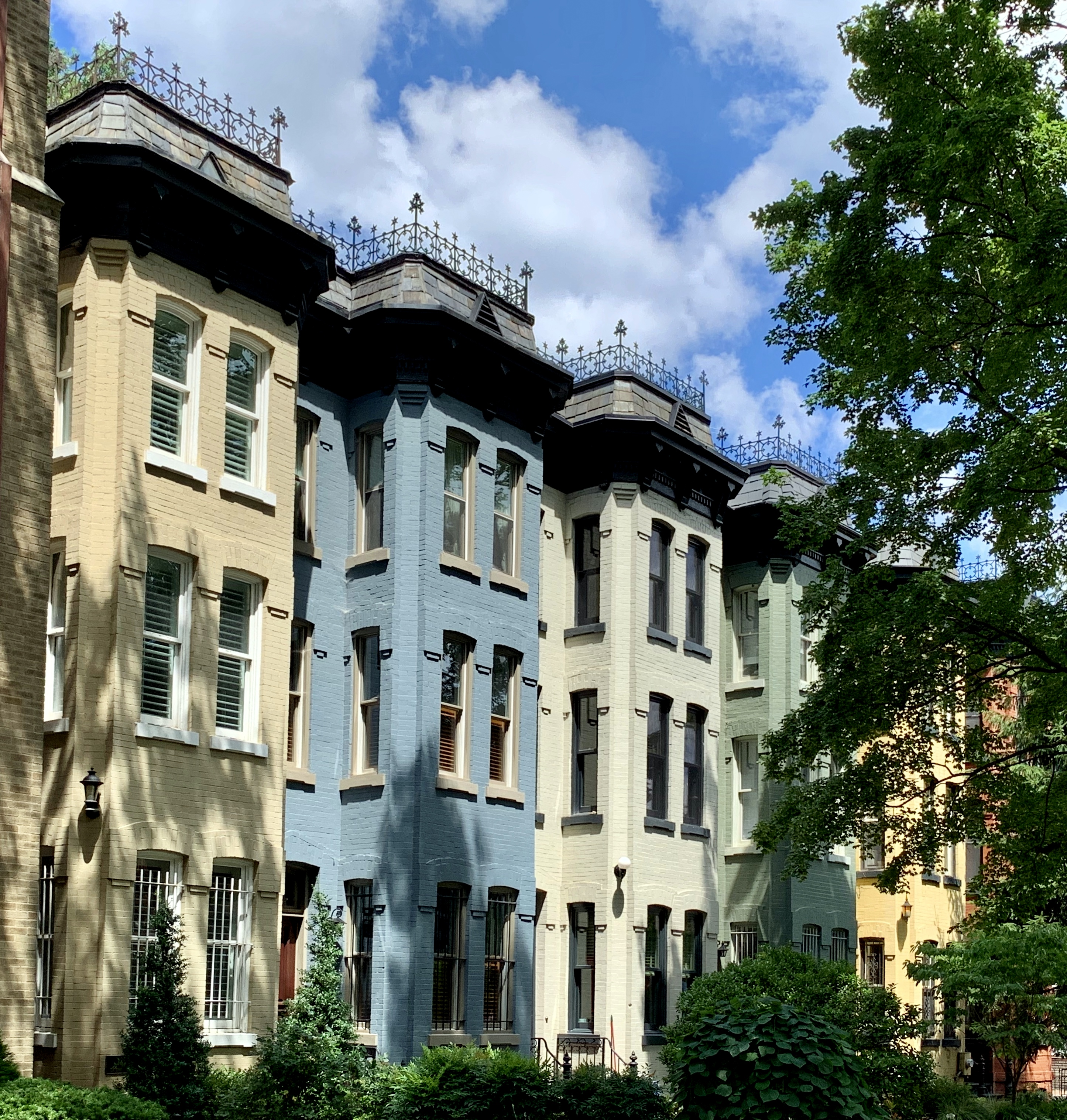 The identical row of houses located at 1816-1826 16th Street NW in Washington, D.C. were built in 1878 by developer Robert A. Belloch. The Queen Anne style houses are contributing properties to the Sixteenth Street Historic District.